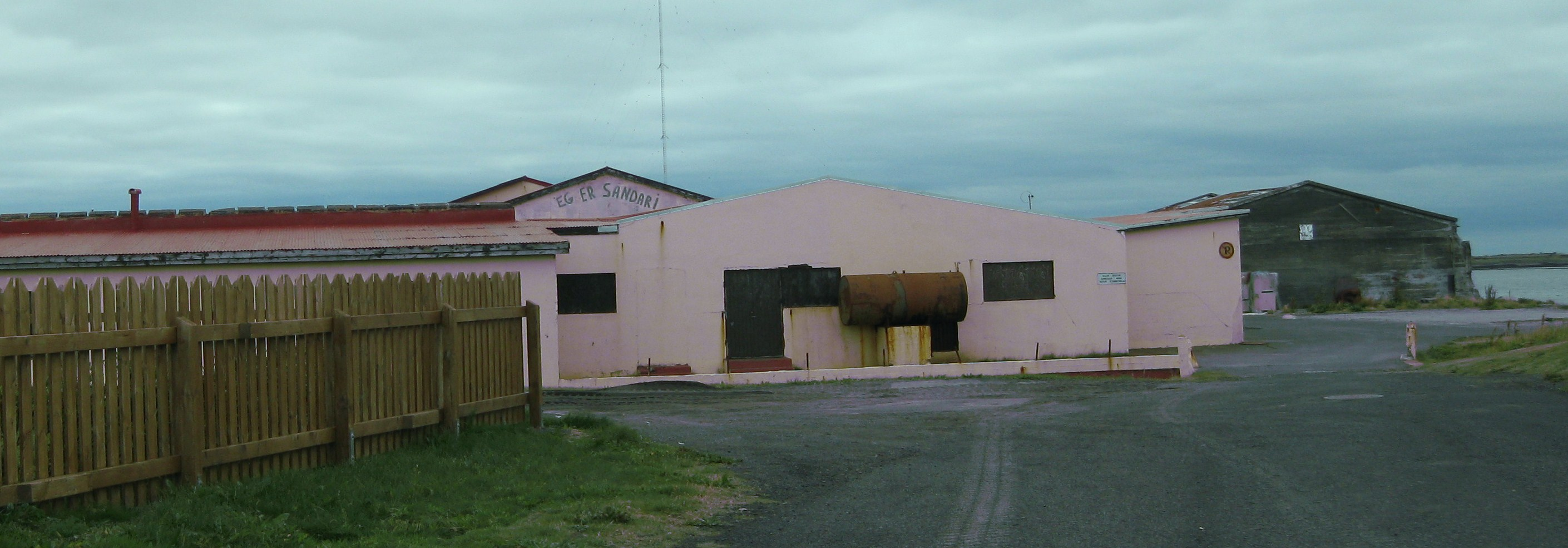 Old fishing houses in in Hellissandur in Snæfellsnes , Iceland. Photo by Salvor Gissurardottir in August 2008